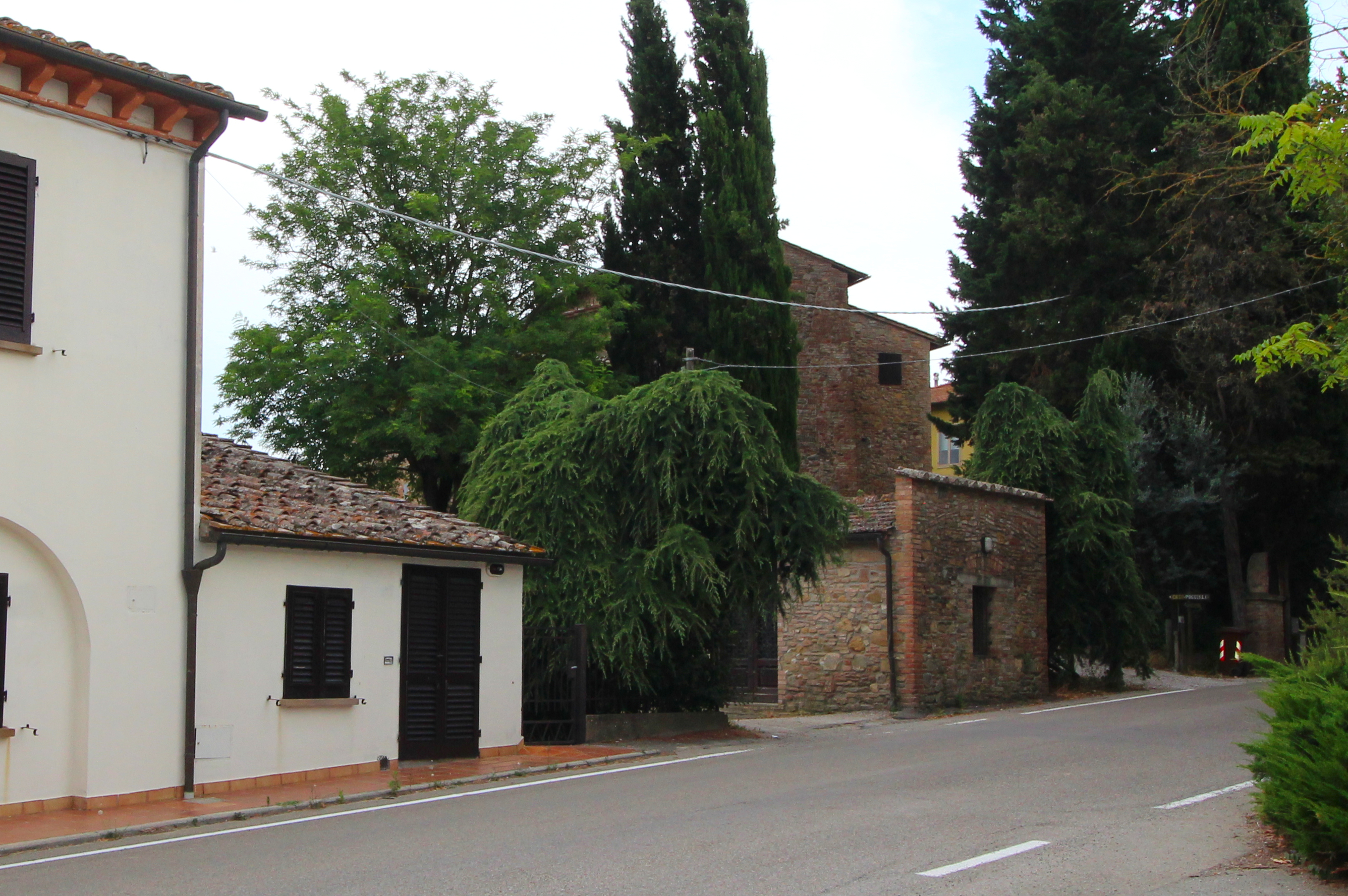 Varna, hamlet of Gambassi Terme, Metropolitan City of Florence, Tuscany, Italy